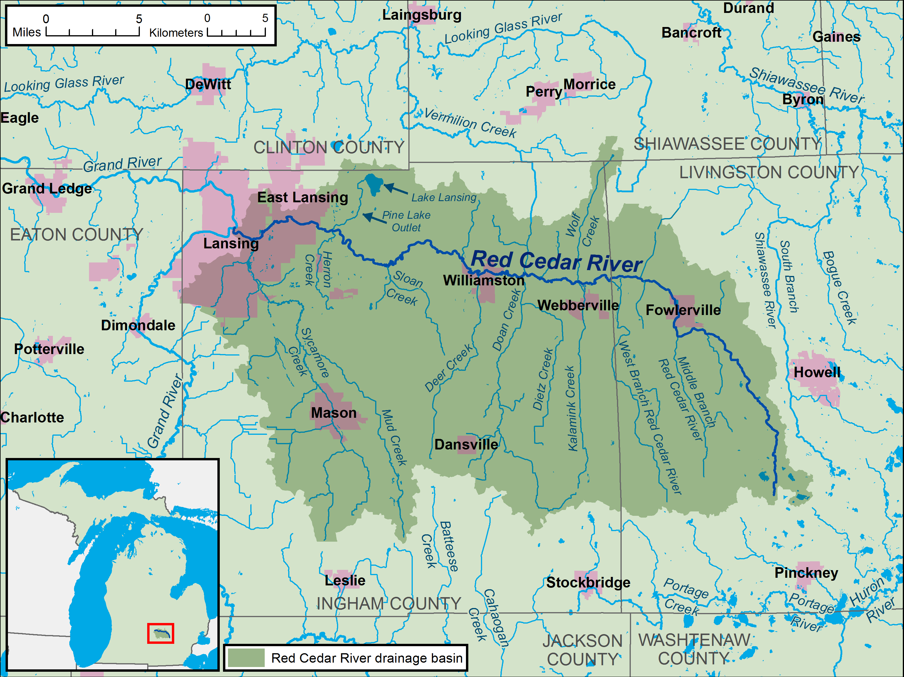 A map of the Red Cedar River and its watershed (USGS HUC-10 codes 0405000404 and 0405000405) in Ingham and Livingston counties, Michigan.